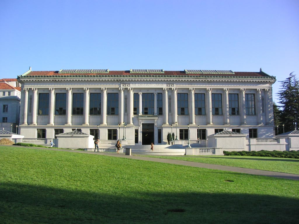 Photograph of Doe Memorial Library, the main library at the University of California.